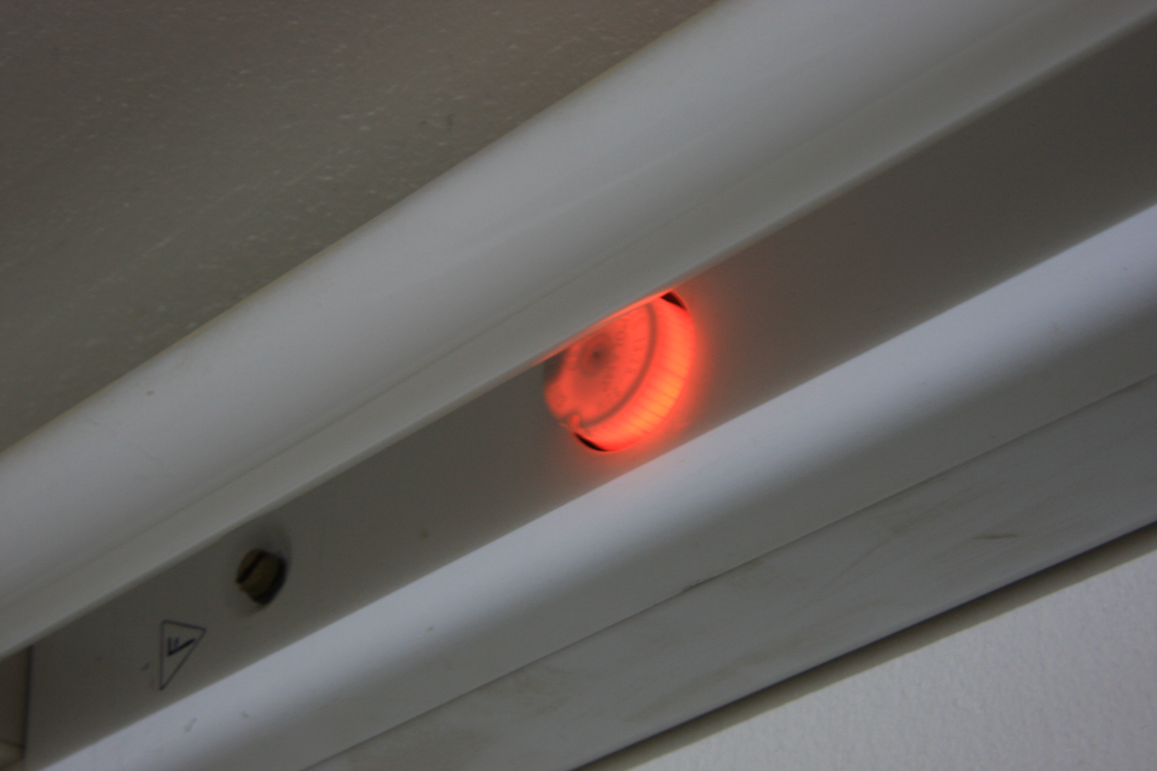 The typical glow of an automatic glow starter while lighting up a fluorescent lamp